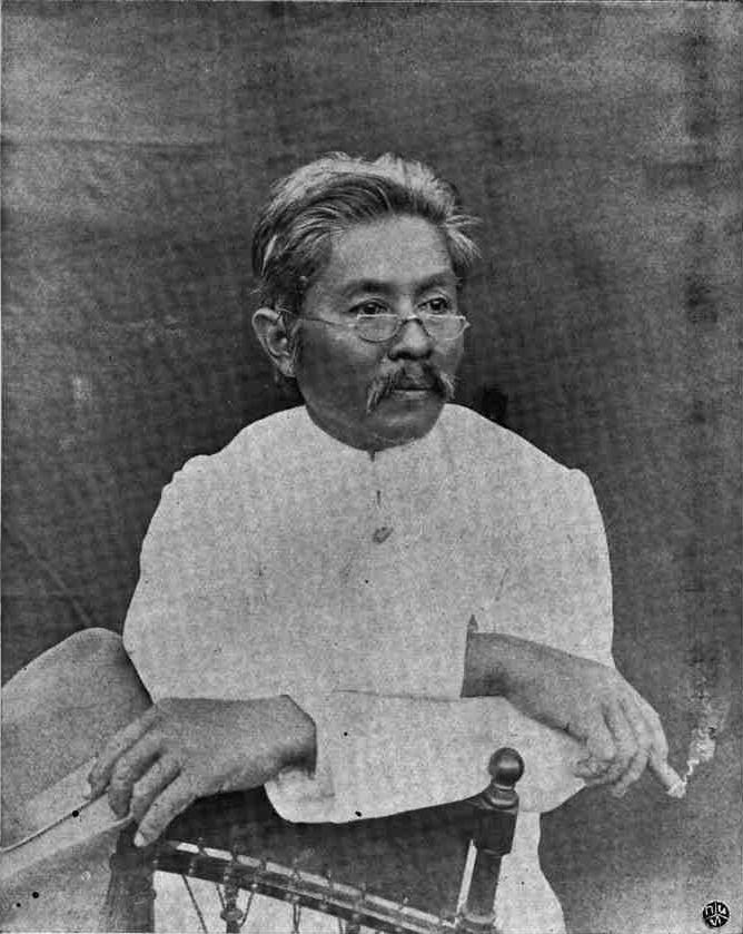 Prince Prachaksinlapakhom. Son of King Mongkut of Siam.